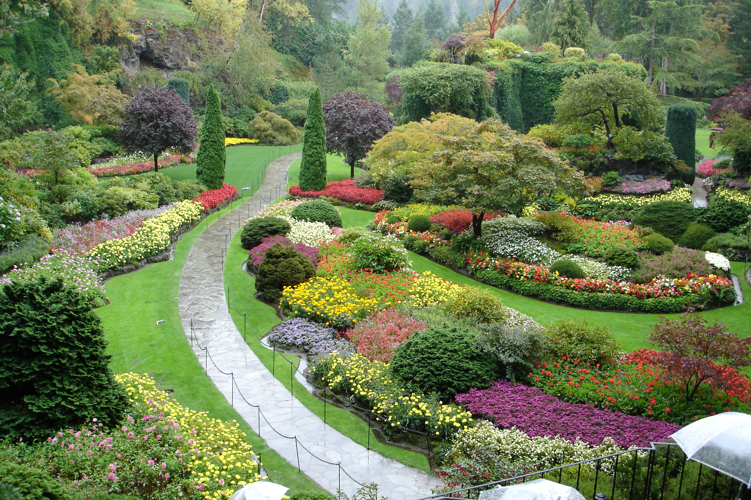 Butchart Gardens, Victoria, B.C. Canada